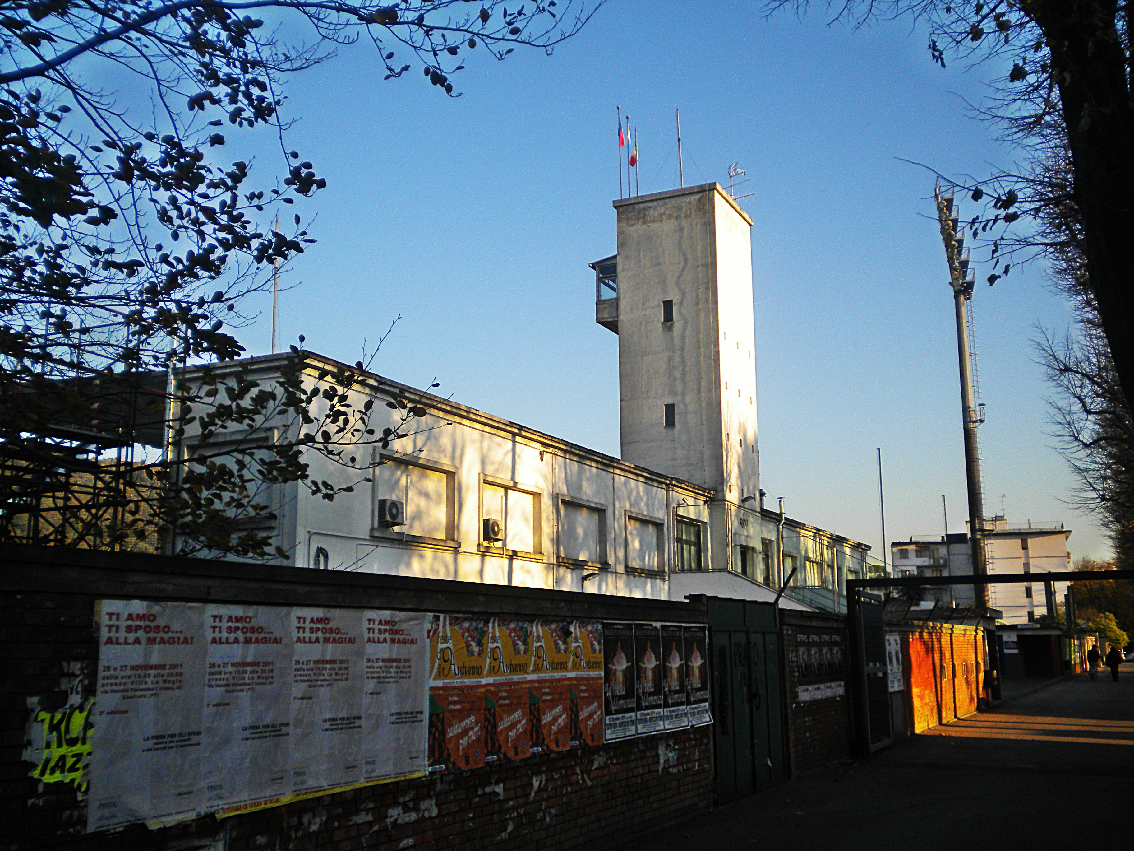 facade